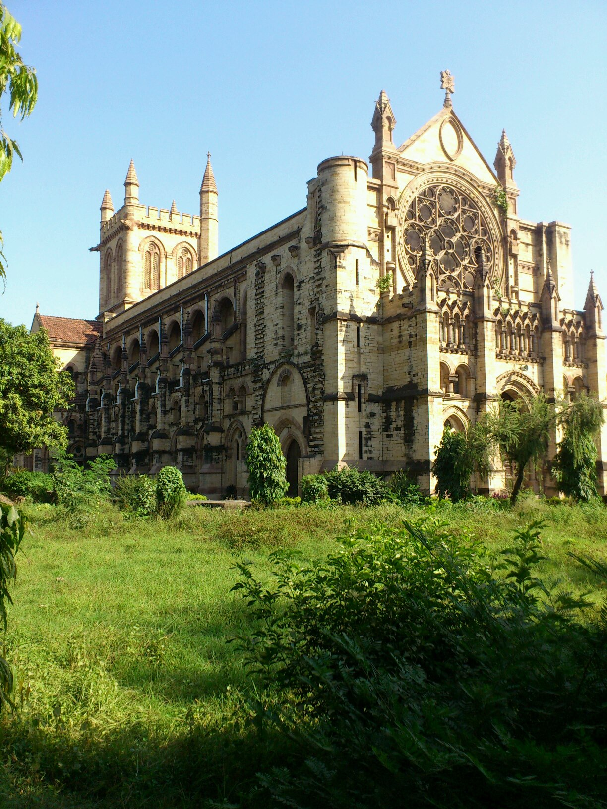 The All Saints Cathedral at Civil Lines in Allahabad,India. One of the most prominent landmarks of Allahabad and one of the oldest Churches